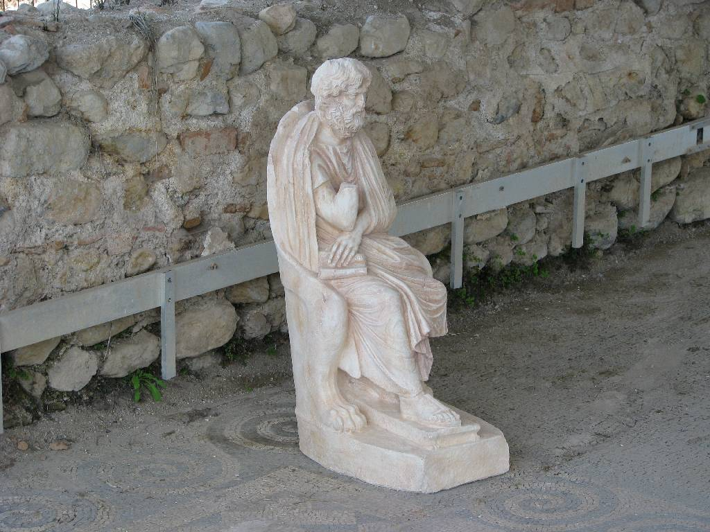 The Archaeological site at Dion, Pieria, Greece